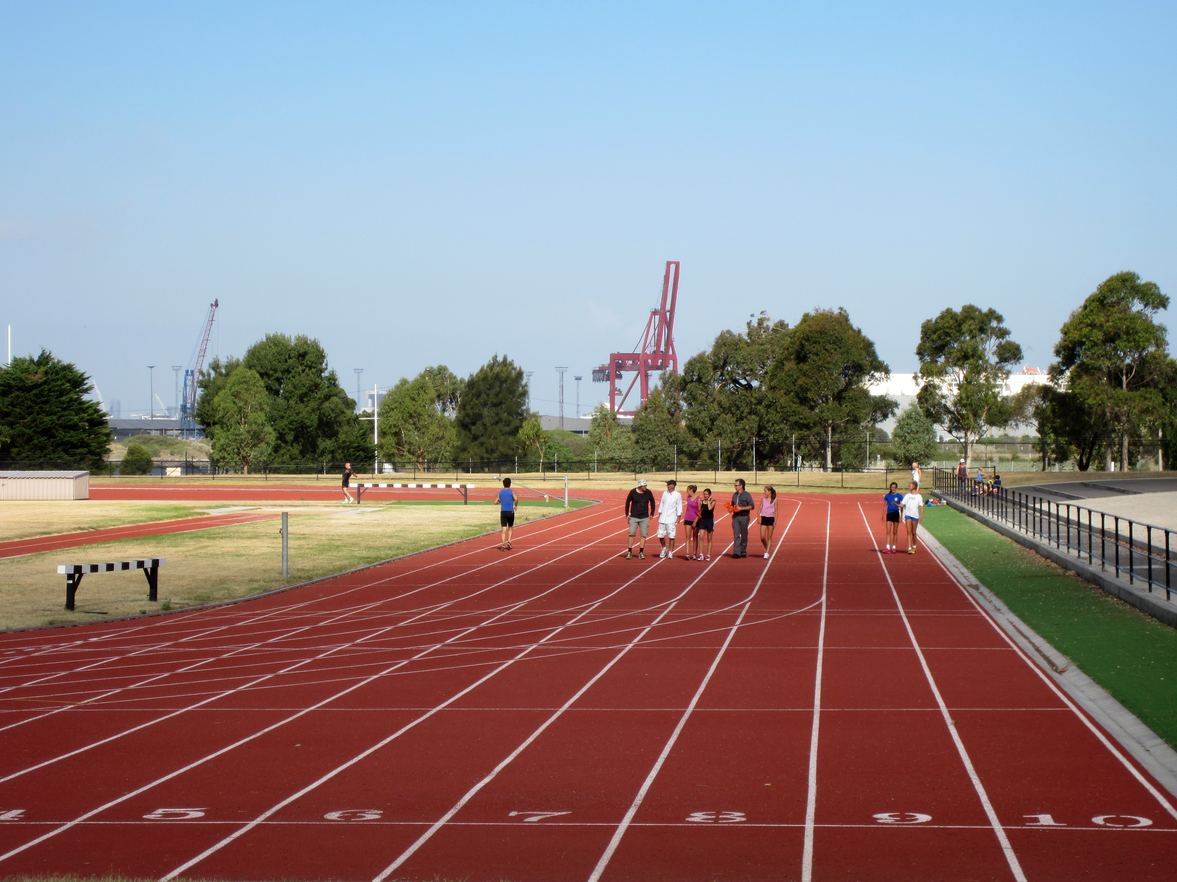 Newport Athletics Track, Newport, Victoria